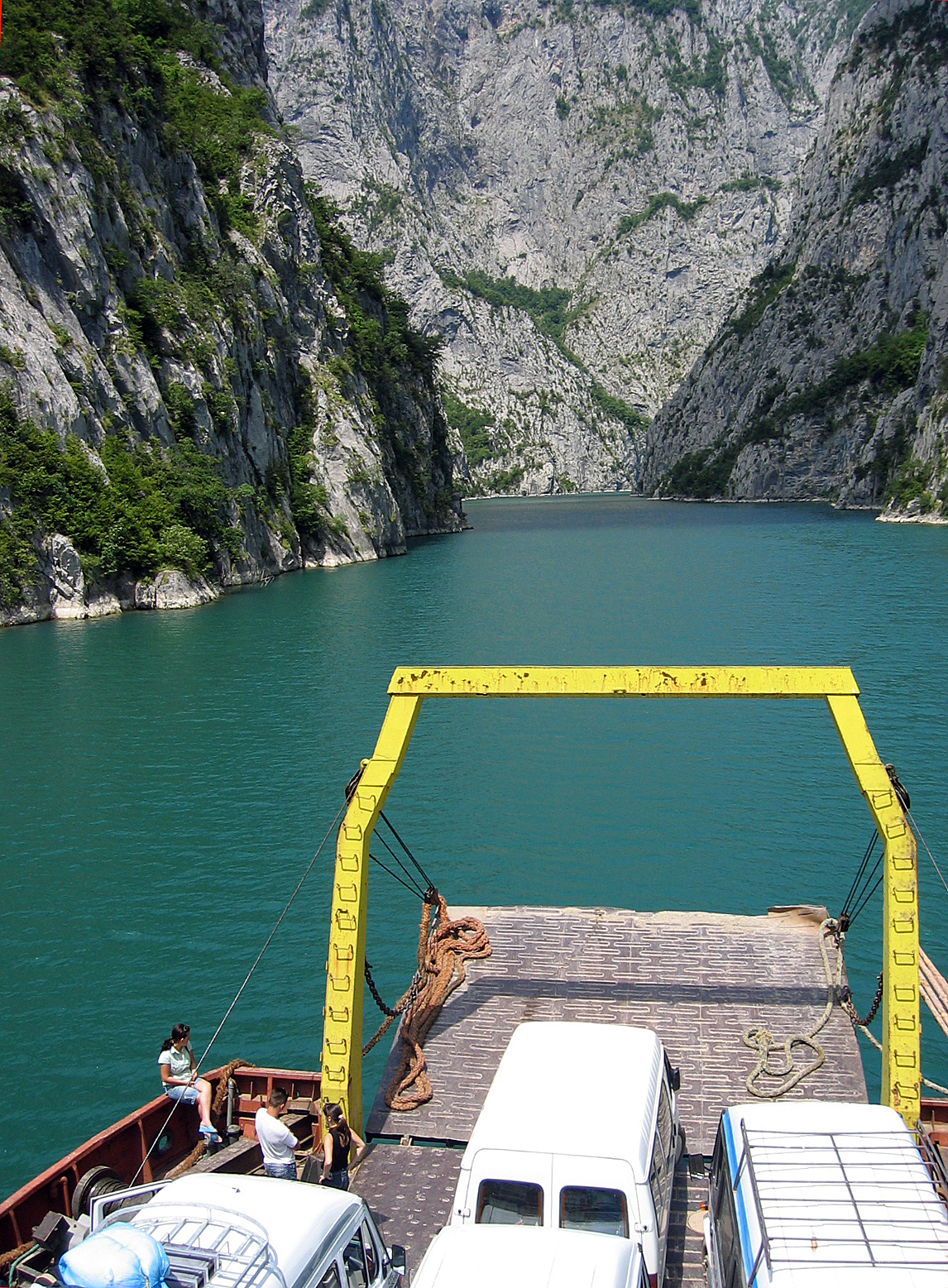 Ferry on Lake Koman, Albania